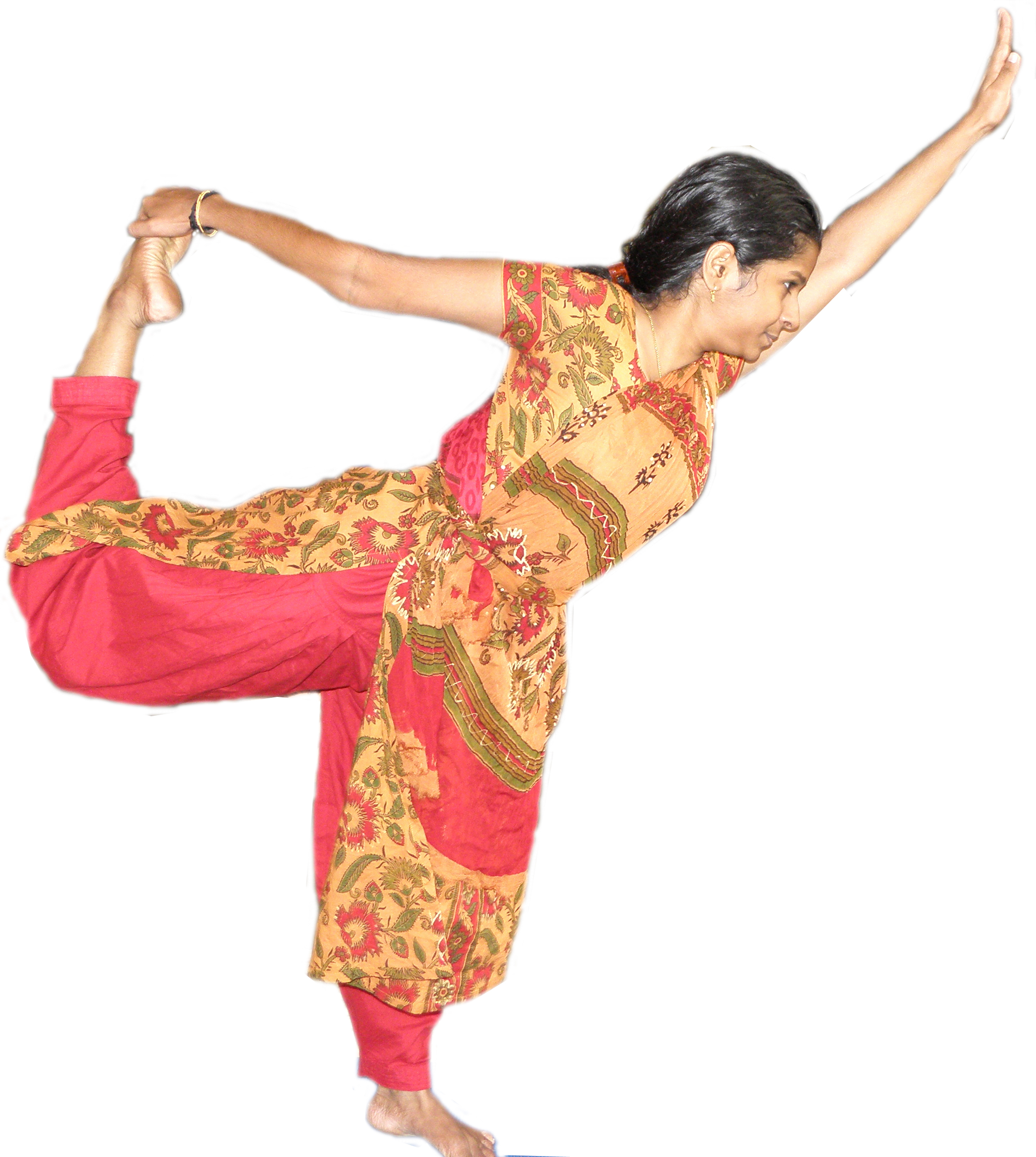 Dancer's Pose